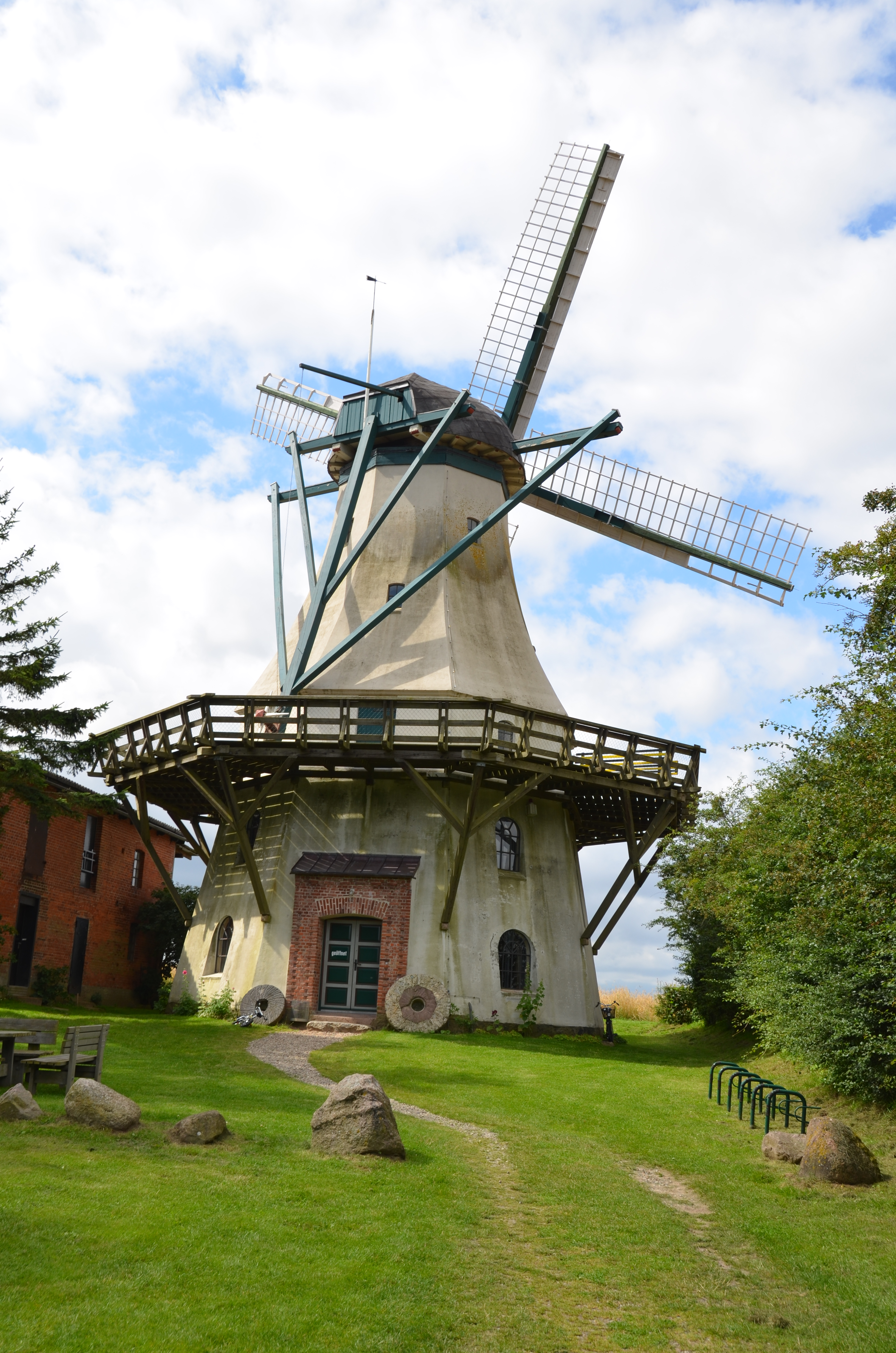 Windmill in Unewatt, Schleswig-Holstein